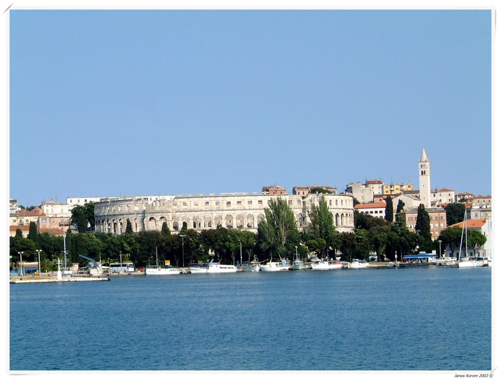 Pula Harbour.